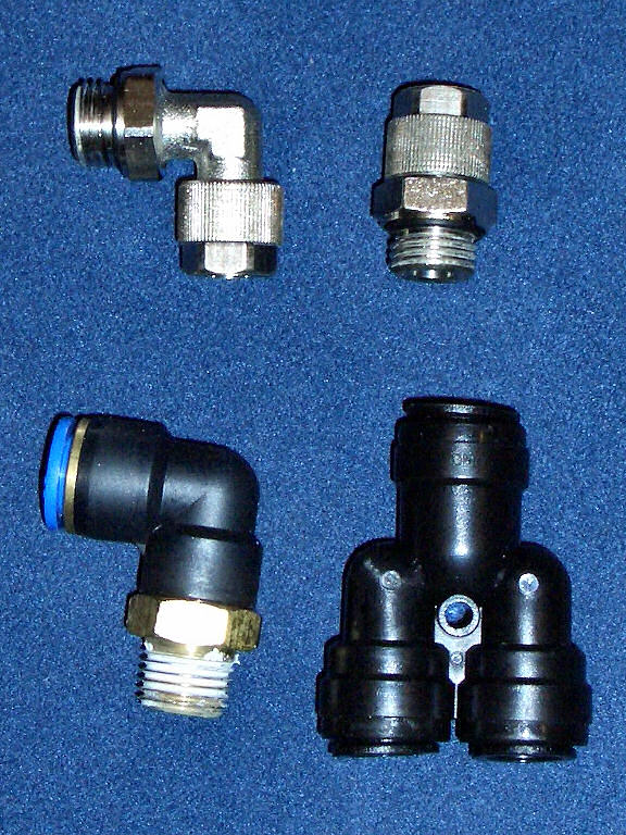 Pipe connectors for watercoolde PCs